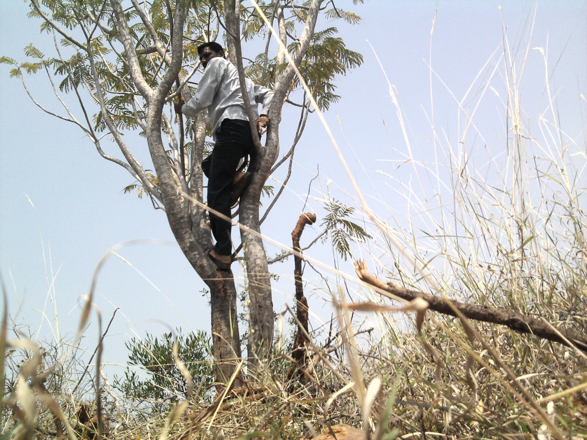 Tree climbing